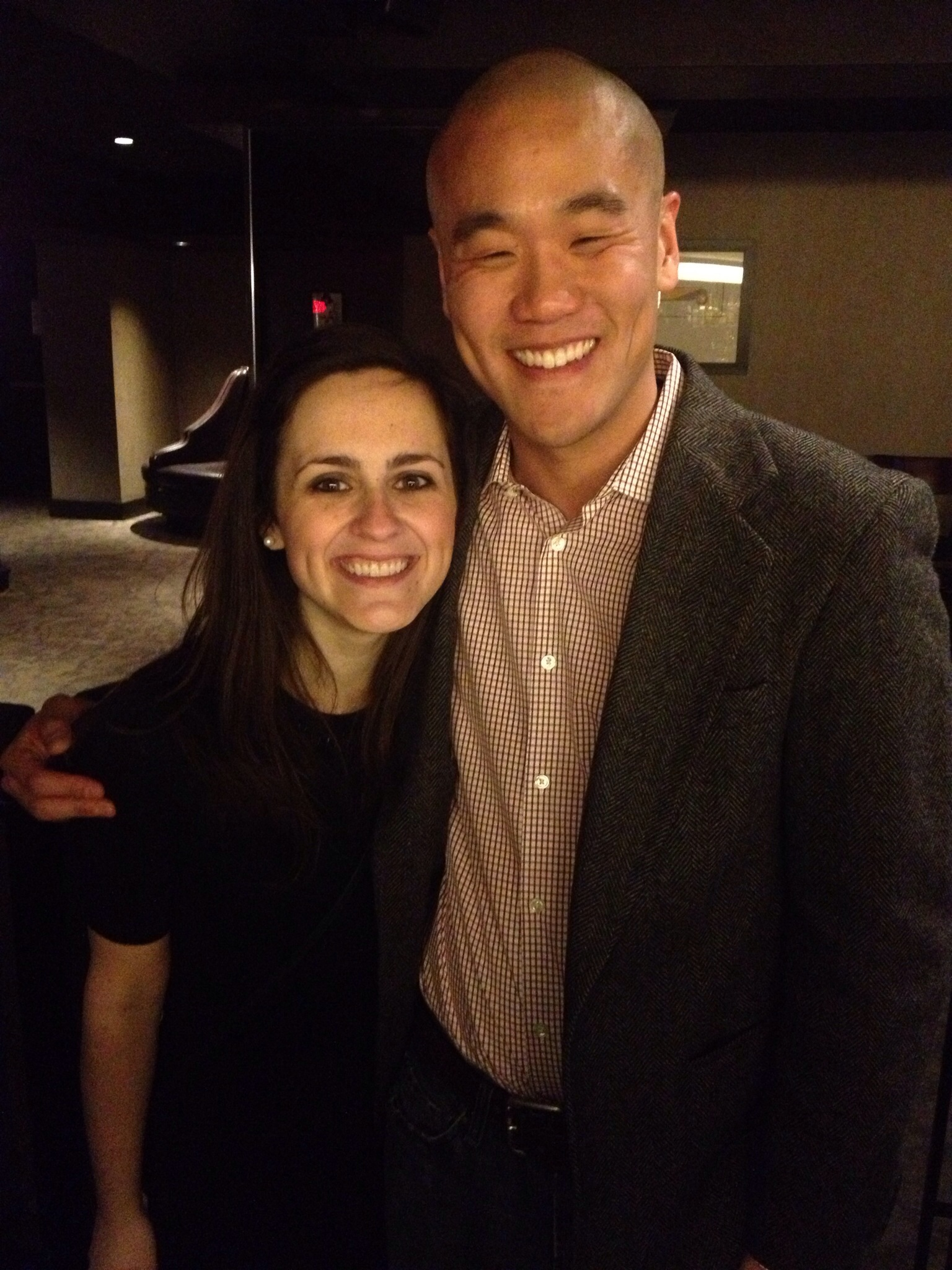 Two friends with dimples